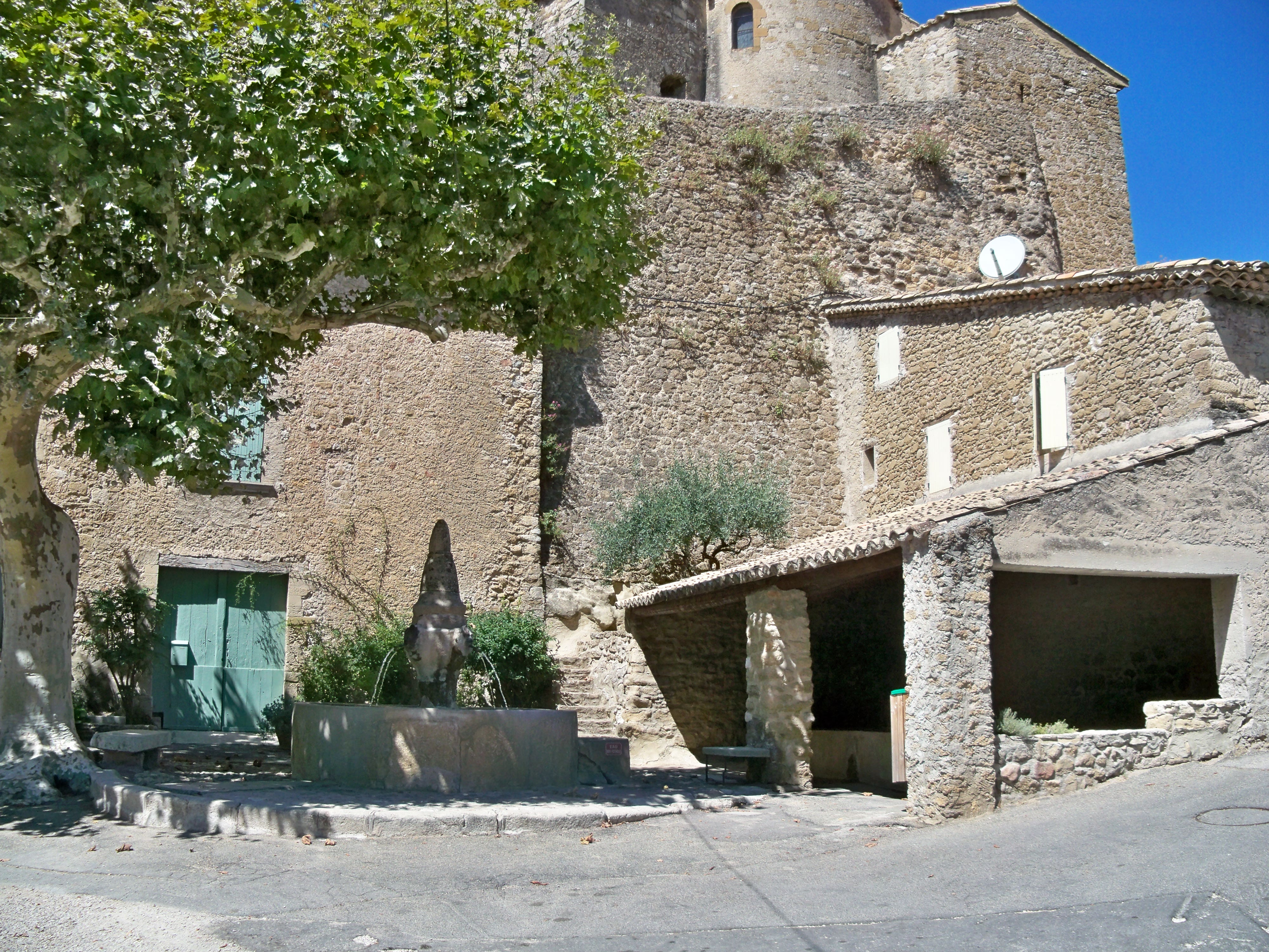 Fountain and wash house of Puyméras, Vaucluse, France